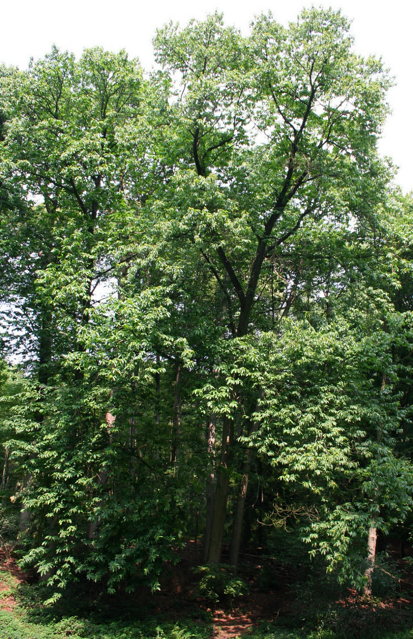 American Chestnut .